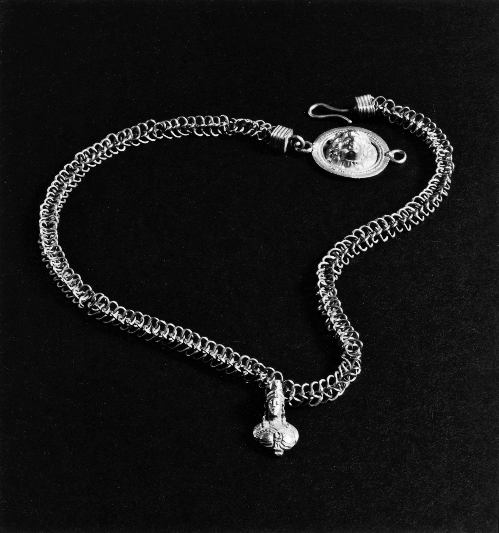 The pendant on this chain link necklace is decorated with filigree and granulation.